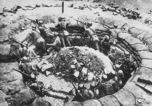 A Chinese gun nest in Shanghai, 1937